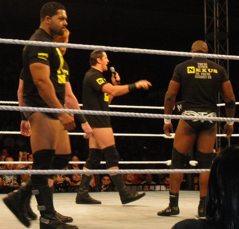 The Nexus at a Puerto Rico Raw Brand house show, Visible are (from left to right): David Otunga, Heath Slater, Wade Barrett, and Michael Tarver.